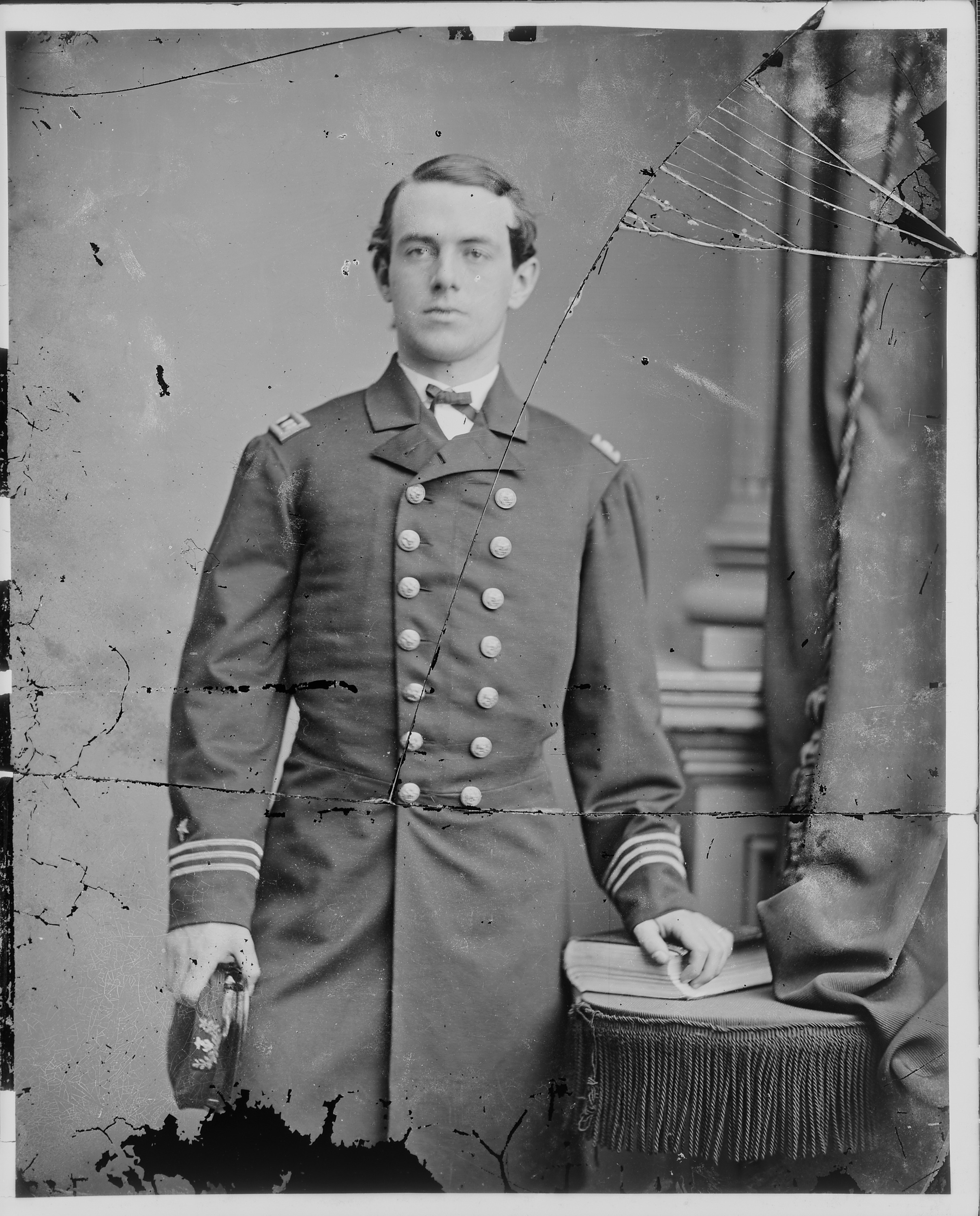 Scope and content: Man in uniform of Lieutenant of Union Navy (after 1863)